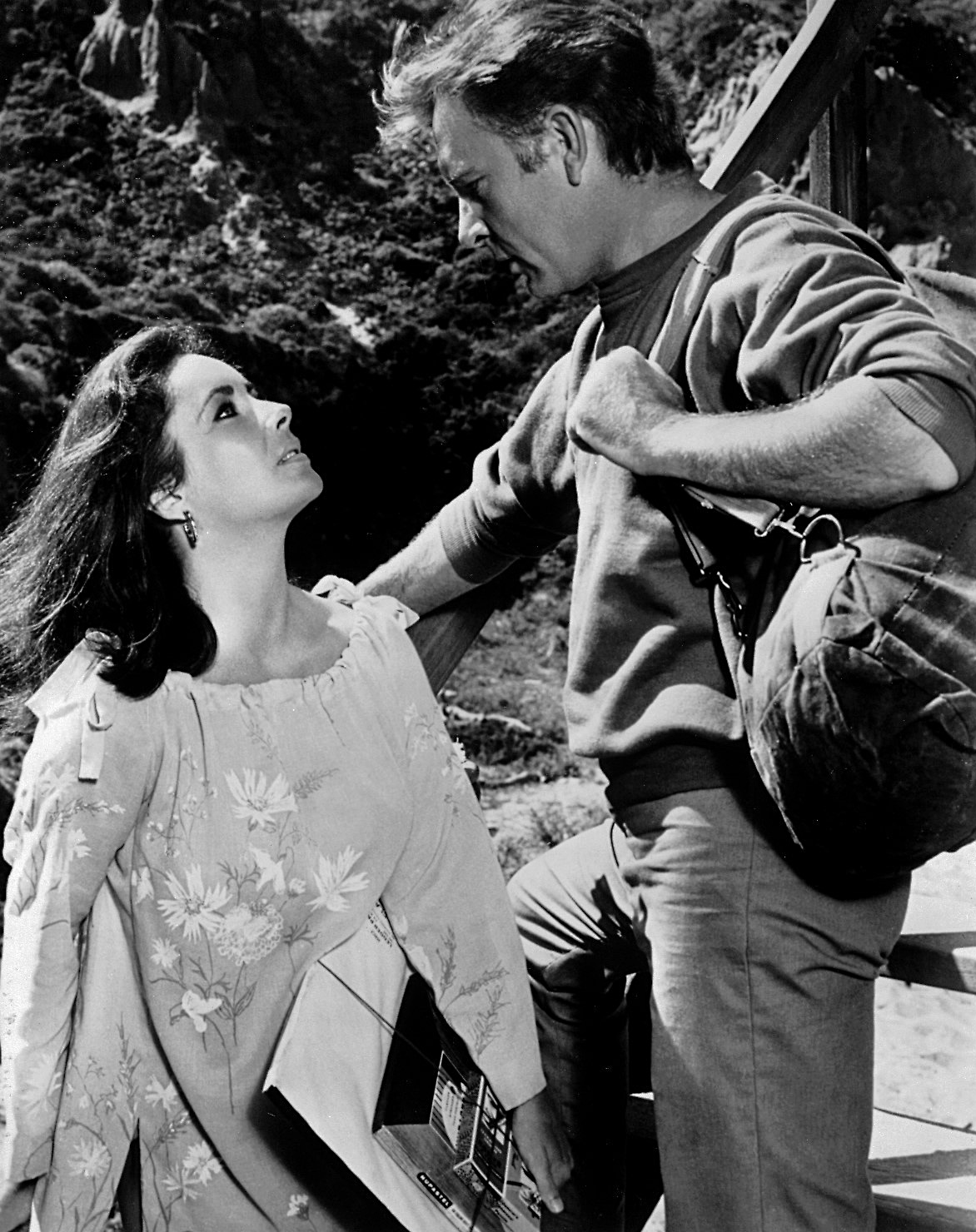 Press photo of Elizabeth Taylor and Richard Burton in the film, The Sandpiper. Neither front or reverse of photo has a copyright notice. See also: film still.